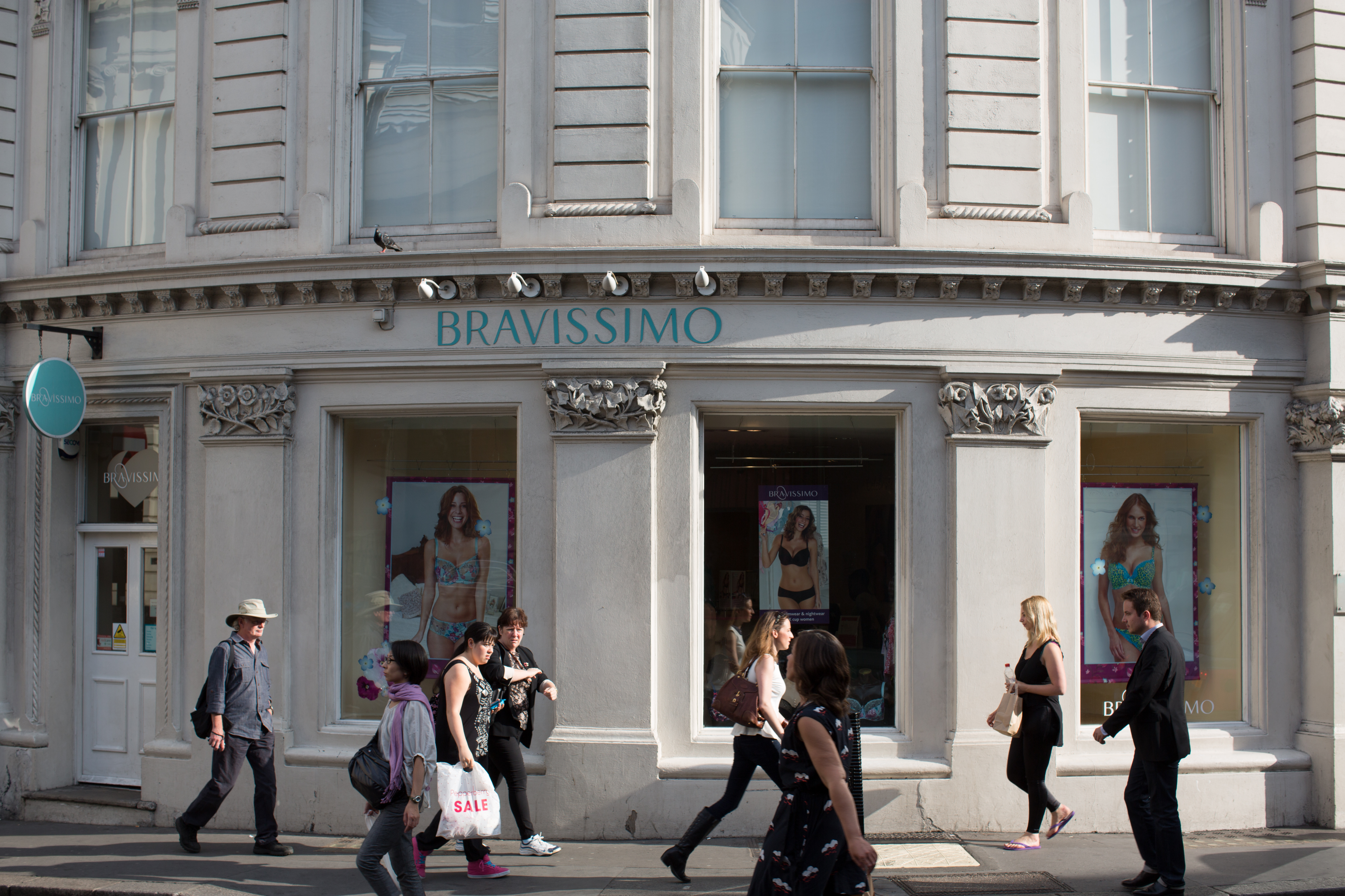 Bravissimo (company) Aug 2013